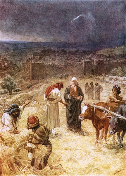 King David purchasing the threshing floor of Araunah the Jebusite, 2 Samuel 24: 24-25.